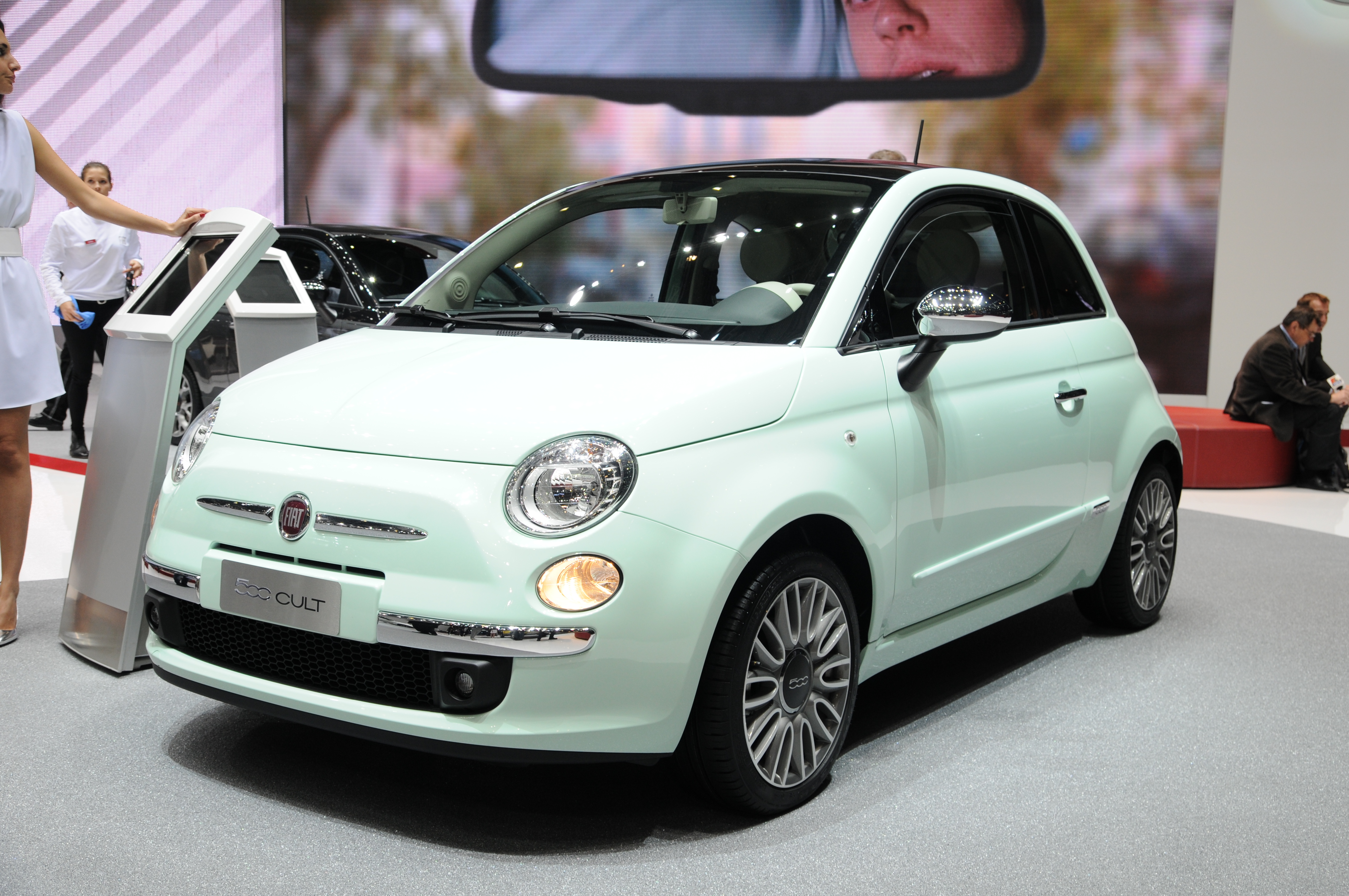 Geneva Motor Show 2014 (photo taken on the first press day)